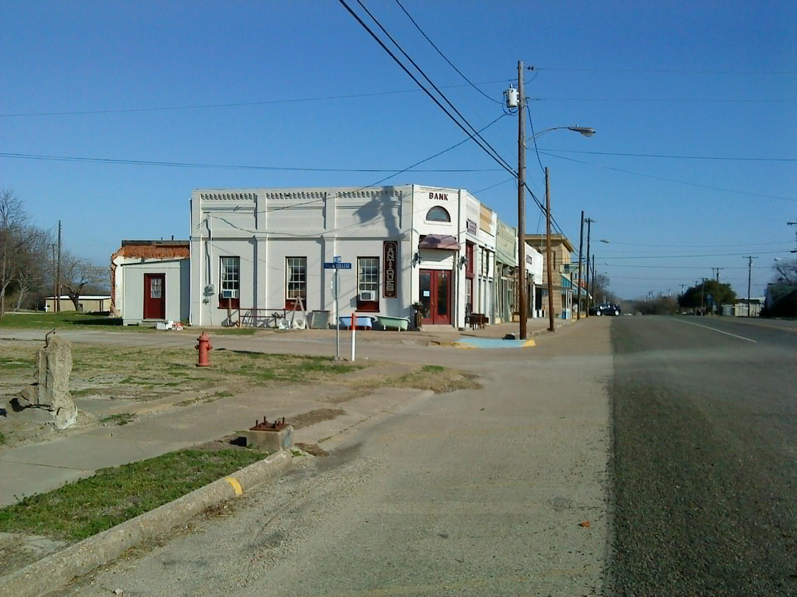 A former bank building now serving as an antique shop in downtown Milford, Texas.